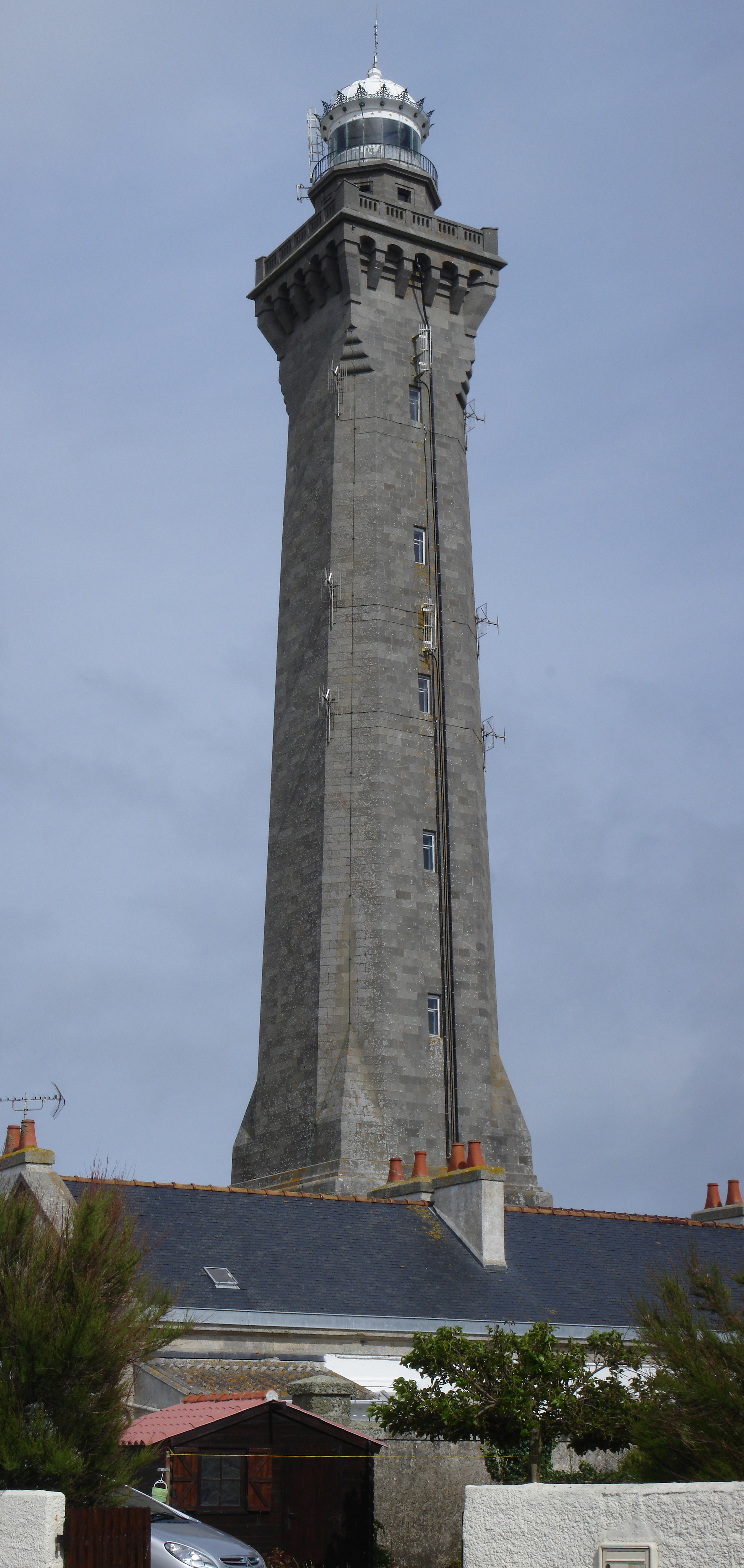 Main view of the lighthouse